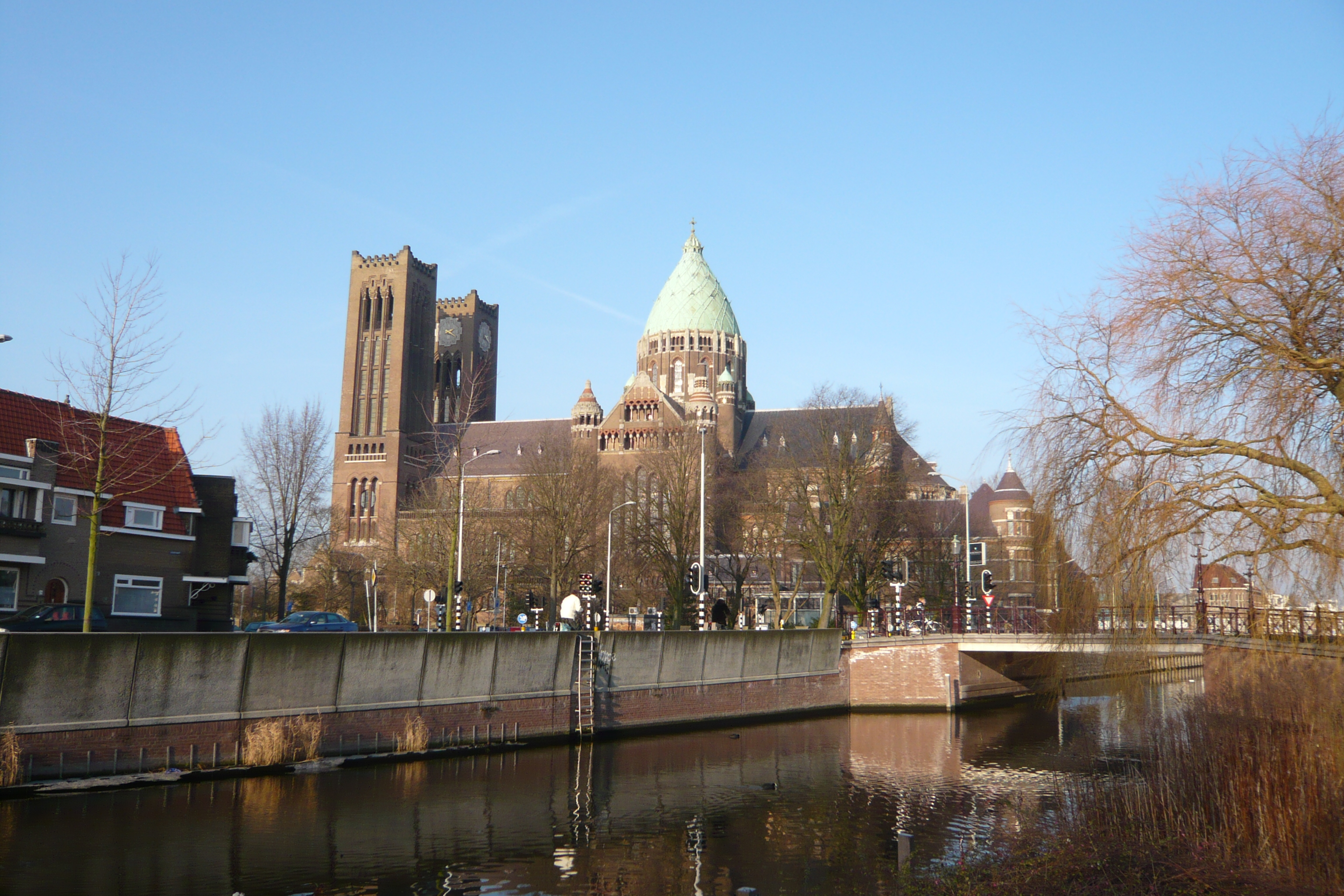 Cathedral of St. Bavo, on the Leidsevaart canal, Haarlem, Netherlands, seen from the South. Not to be confused with the former Cathedral of St. Bavo on the Market Square downtown. Design by Jos Cuypers, built from 1895-1930. Bishop's quarters are also adjacent and facing the canal. Inside is a small museum open sporadically in the summer months. Information to be had via the VVV.